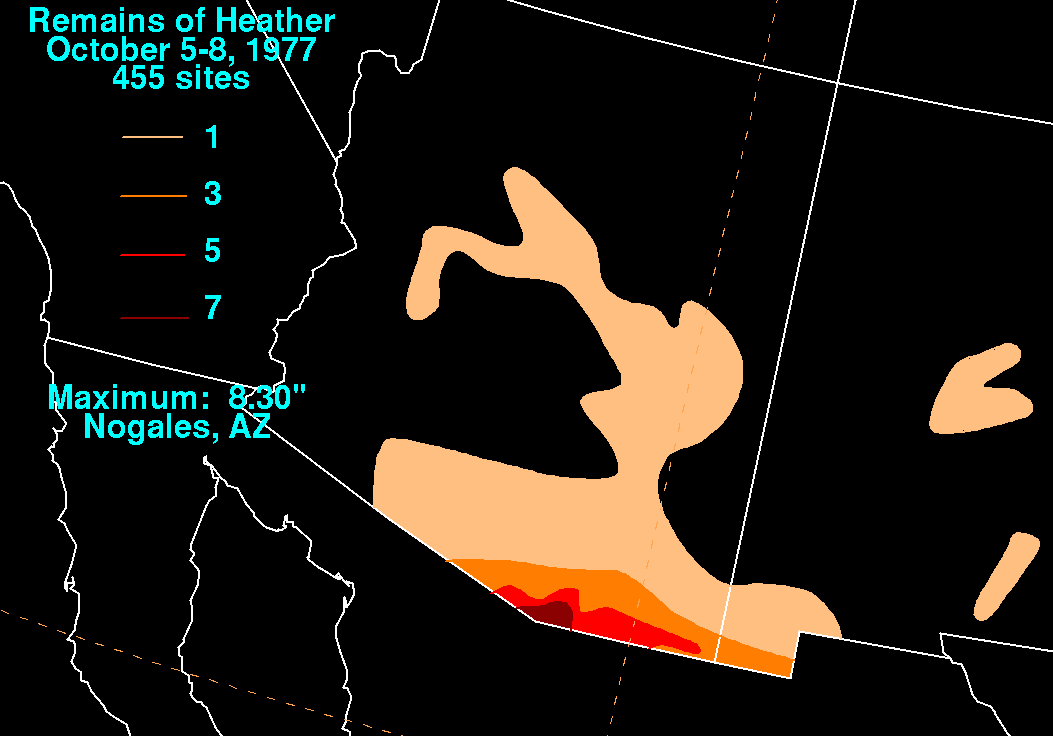 Rainfall produced by Hurricane Heather during October 1977.